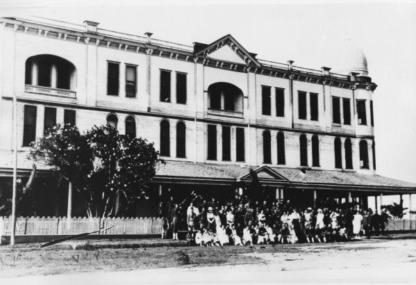 A large group of unidentified people poses by the entrance of the San Leon Motel. Men in uniform are standing behind and among the women in the group.